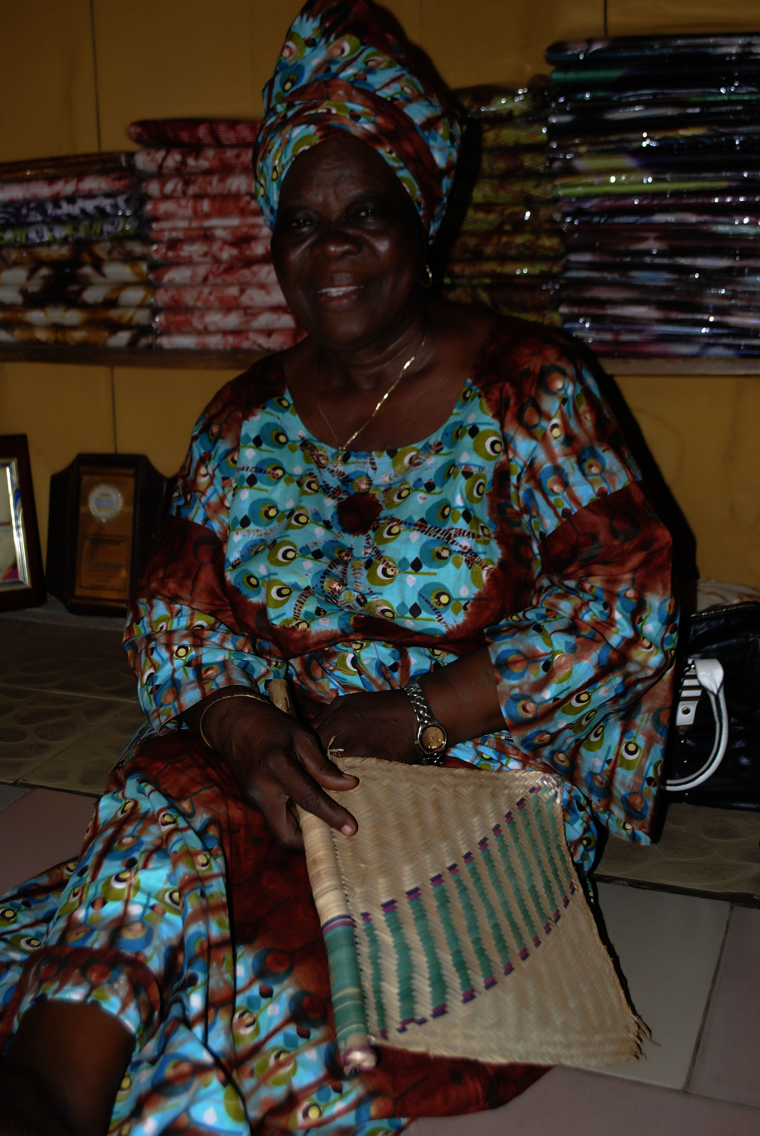 A woman dressed in Adire, a local Yoruba fabric made in abeokuta This is an image of Cultural Fashion or Adornment from Nigeria